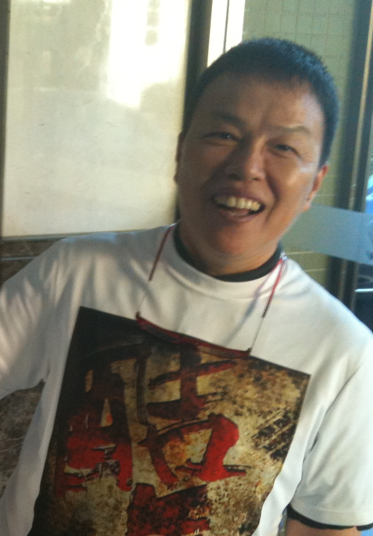 The director Wang Hsiao-ti (Chinese: 王小棣, Pinyin:Wang Xiaodi, Wade-Giles: Wang Hsiao-ti, also known as Wang Siu-di).